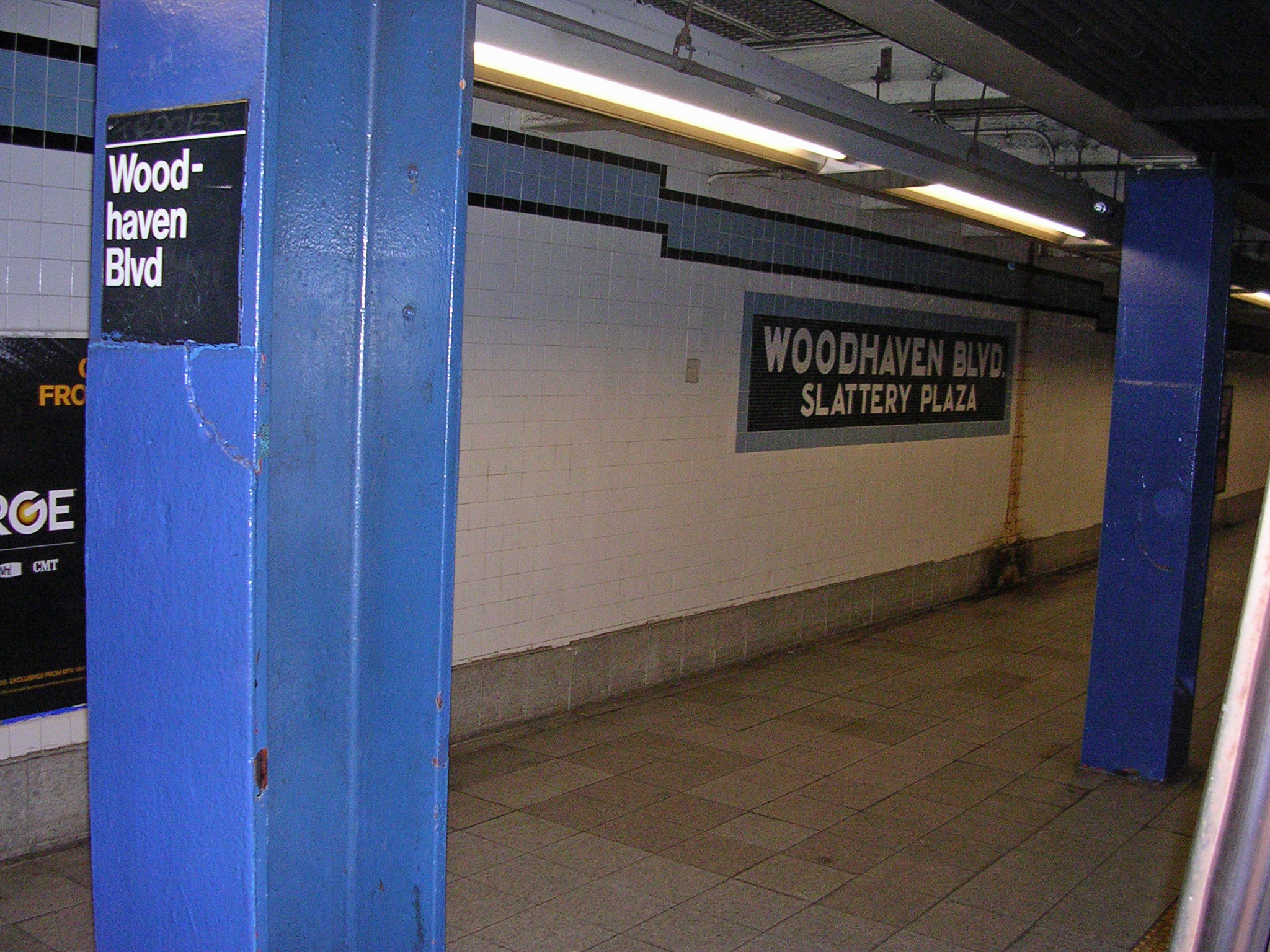 Woodhaven Blvd Station by David Shankbone, January 15, 2007.